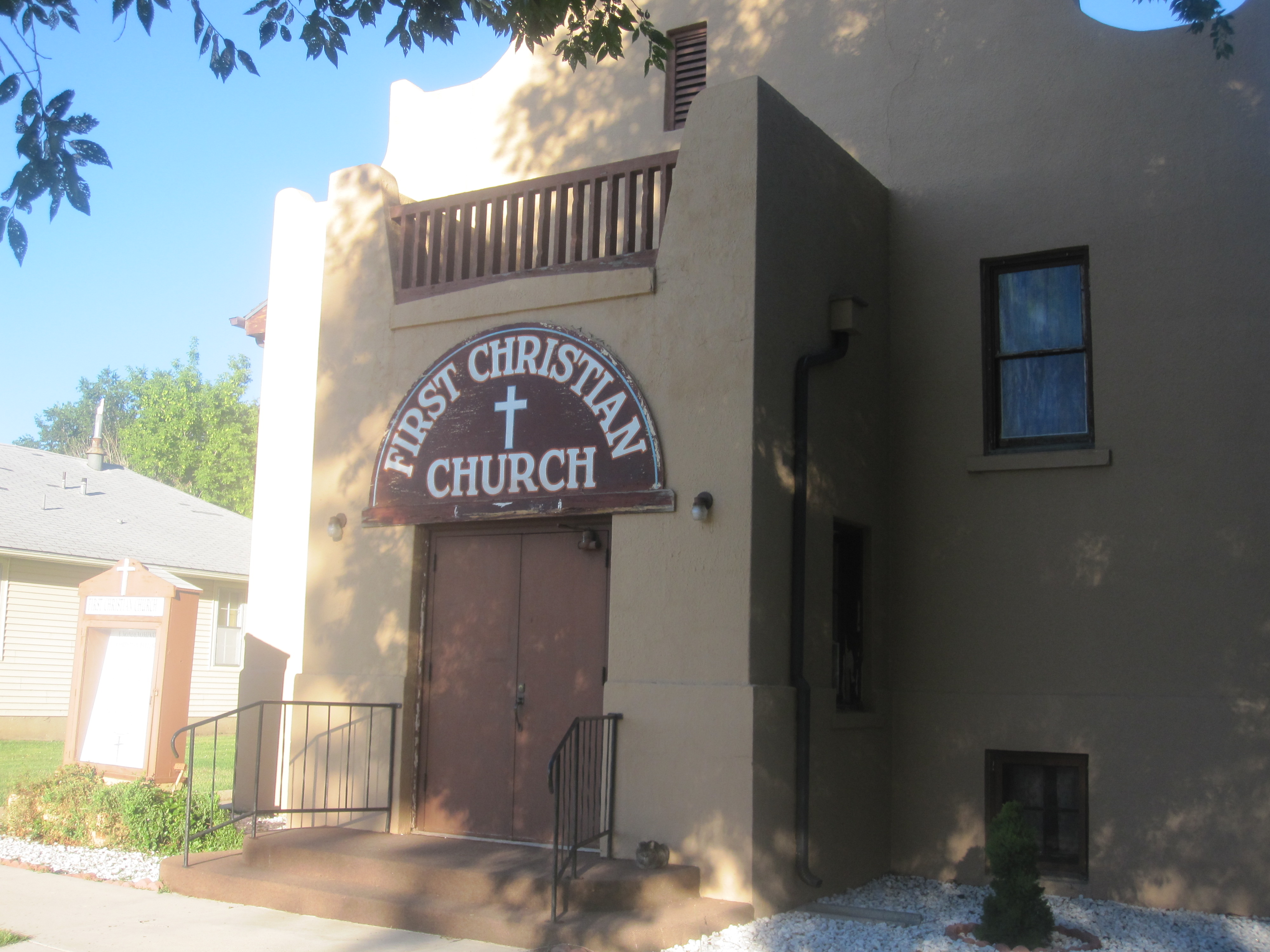 I took photo with Canon camera in Raton, NM.